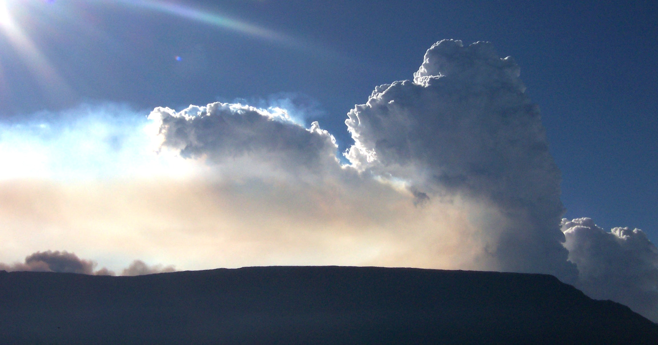 The smoke trails of the eruption of Piton de la Fournaise (Réunion island) on 2007, April 7th, seen over the crest of Morne Langevin from the place of Notre-Dame de la PaixOne can see beginning from the right the high white trail of condensed water mainly caused by the lava entering the ocean, the reddish and blue smokes of the very eruption and the black cloud of dust coming from the fallings in of the summit of the volcano